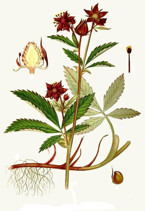 Comarum palustre, botanical illustration